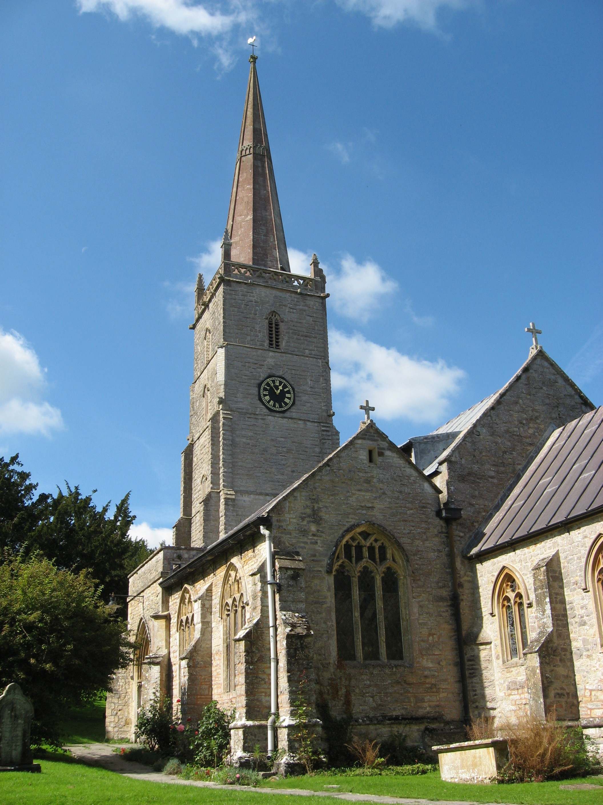 Steeple and south aisle of the parish church of St Mary the Bléssed Virgin, East Brent, Somerset, seen from the east